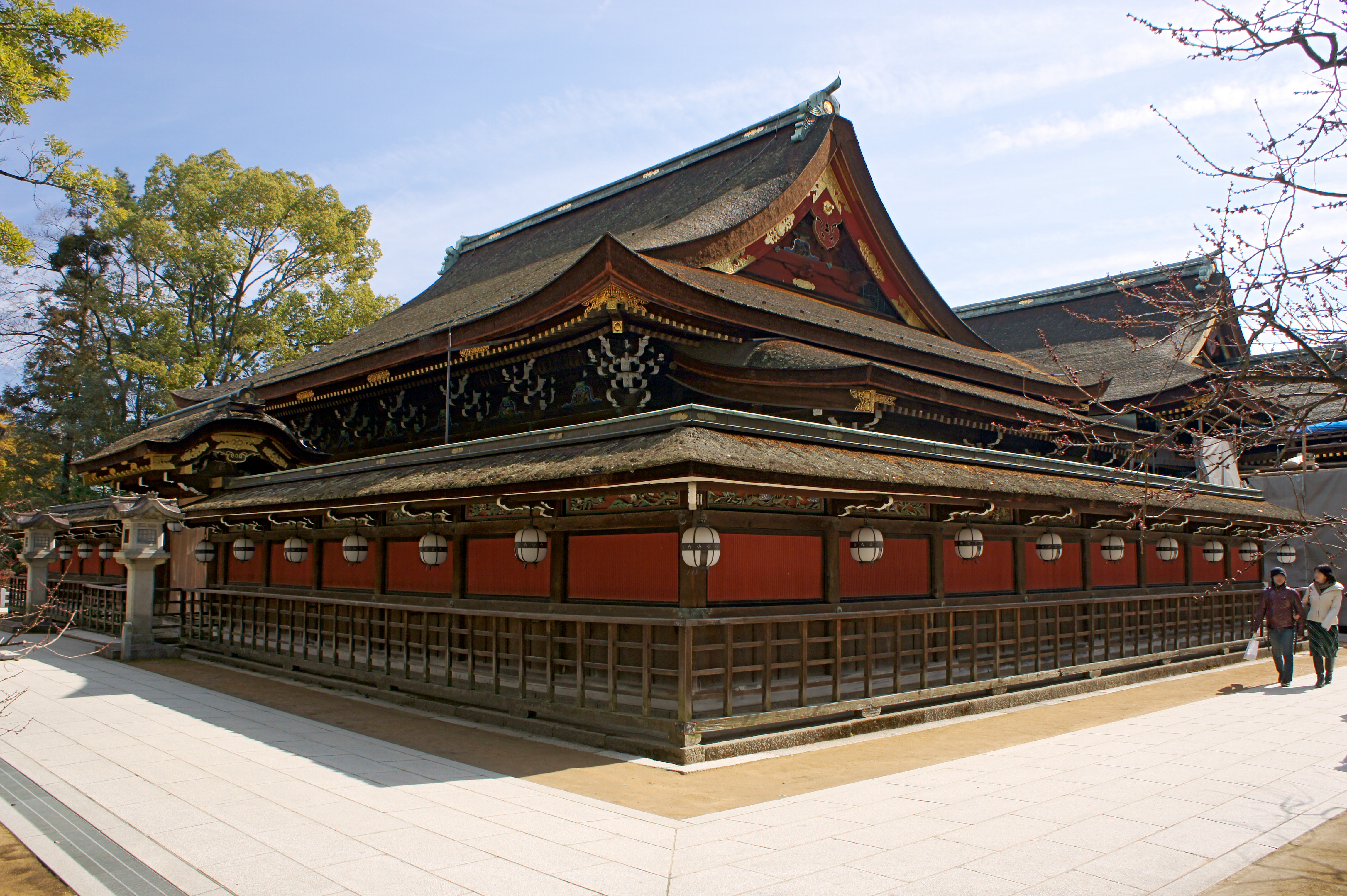 Main Shrine of Kitano Tenman-gū is a Japan's National Treasure, in Kamigyō-ku, Kyoto, Kyoto Prefecture, Japan